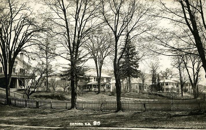 The Ridge, Orford, New Hampshire. A number in the sequence of houses are based on pattern book designs by architect Asher Benjamin.